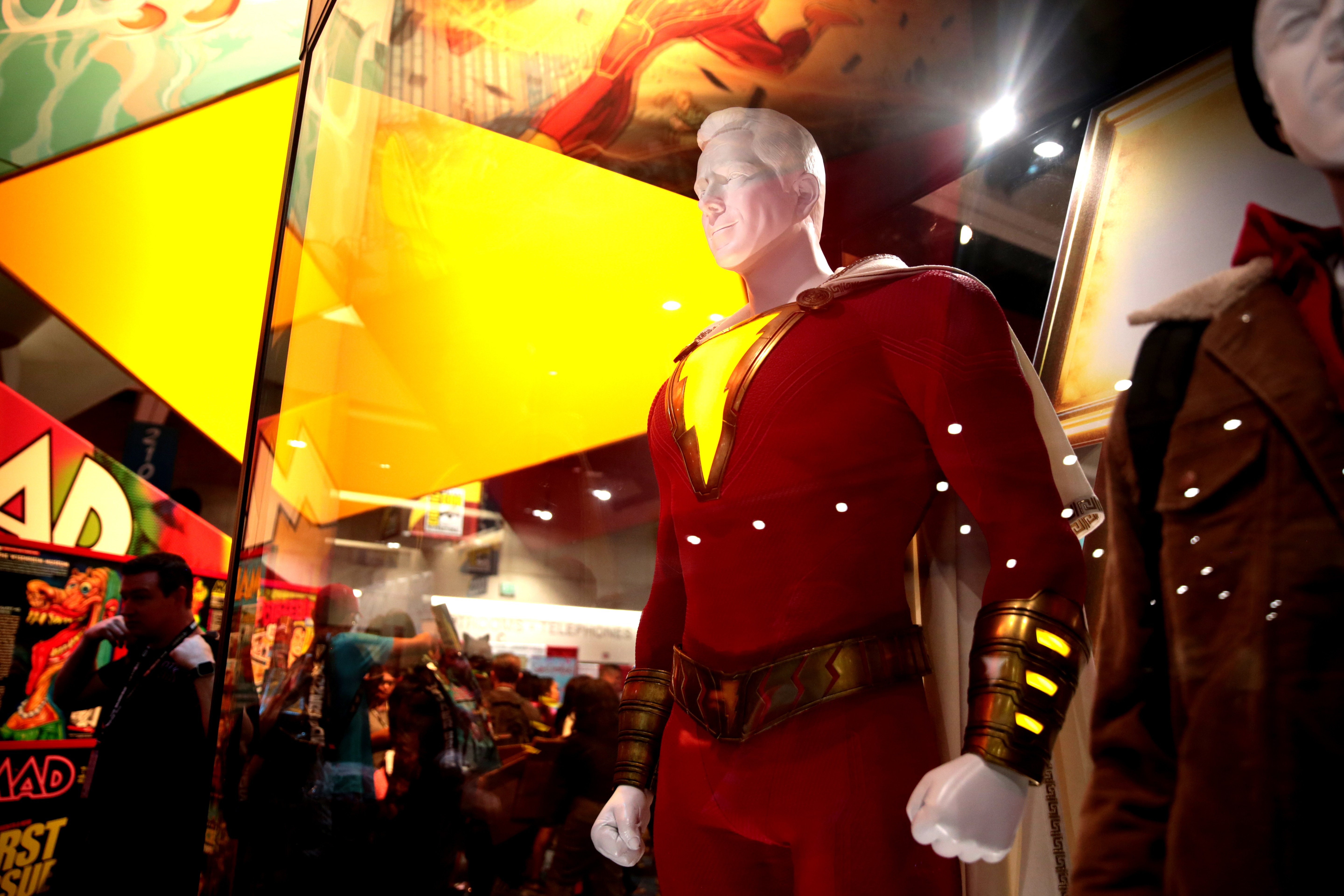 Shazam! statue at the 2018 San Diego Comic-Con International at the San Diego Convention Center in San Diego, California.